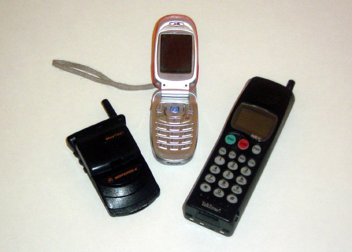 Mobile phones